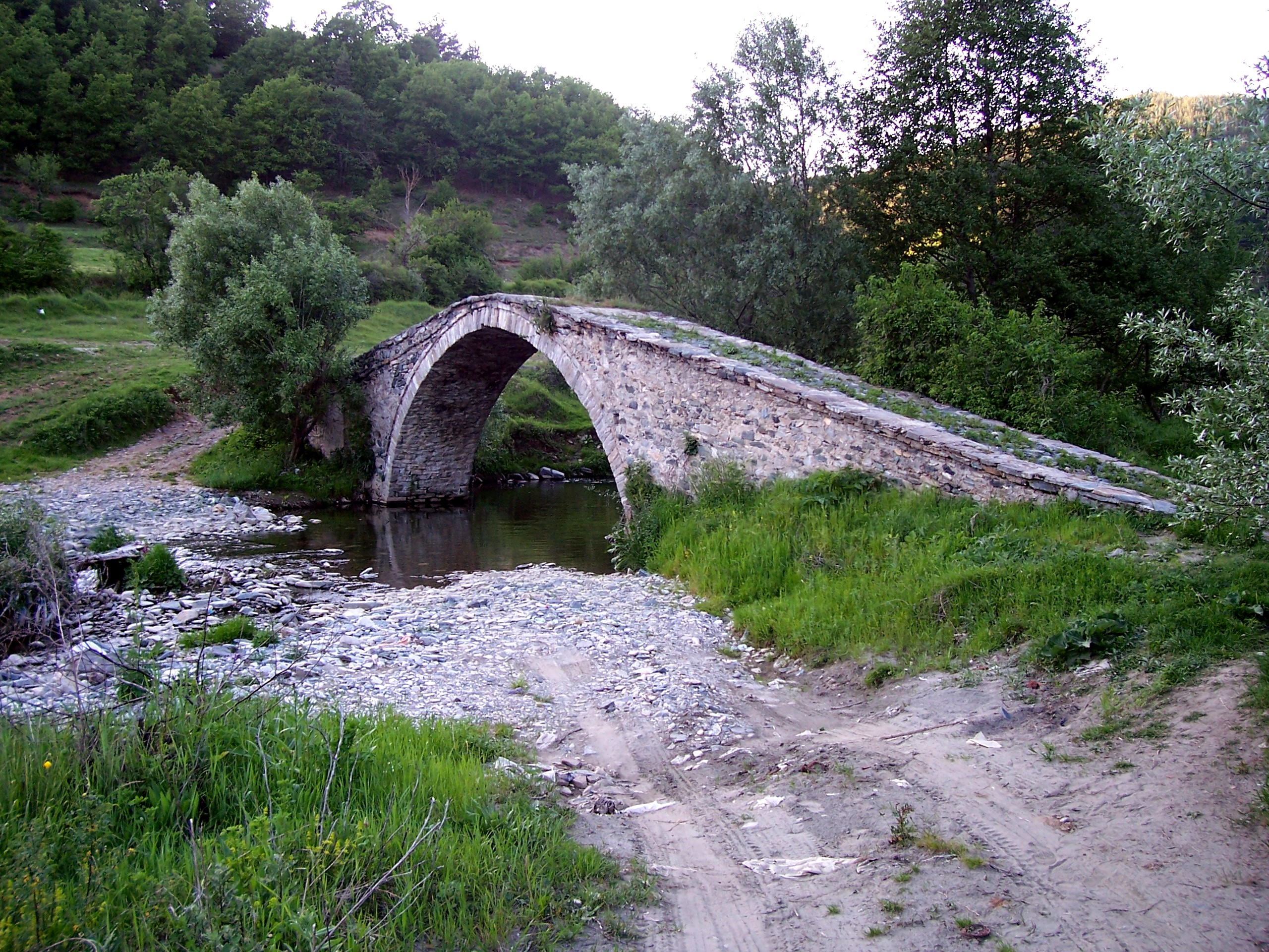 The Roman-style bridge over the river of Bistritsa in Chech.